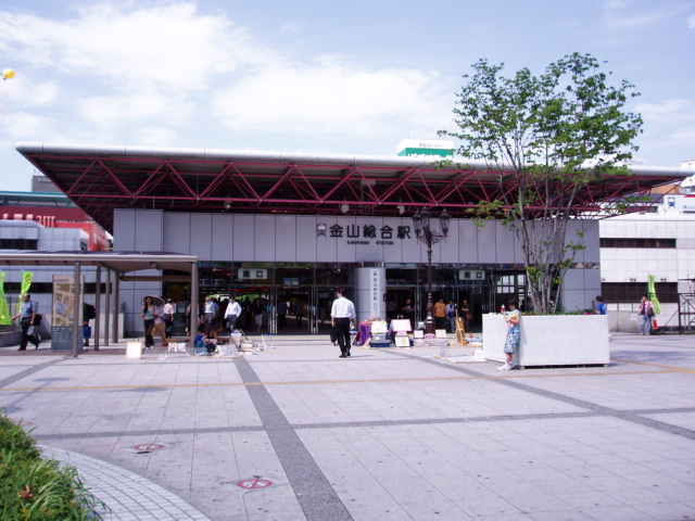 Kanayama Station South Gate This Kanayama station is the Kanayama station in Aichi Prefecture. 金山駅南口 この金山駅は愛知県にある金山駅です。